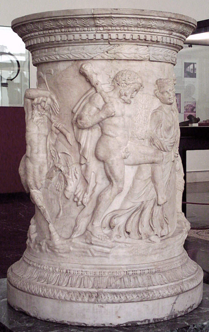 A Bacchic Roman puteal (wellhead). It's a Neo-Attic style artwork, inspired by Hellenistic art. Relief shows figures in a Bacchic procession, like Hercules (at the image), who, inebriated, wears the skin of the Nemean Lion and carries his olive-wood club.